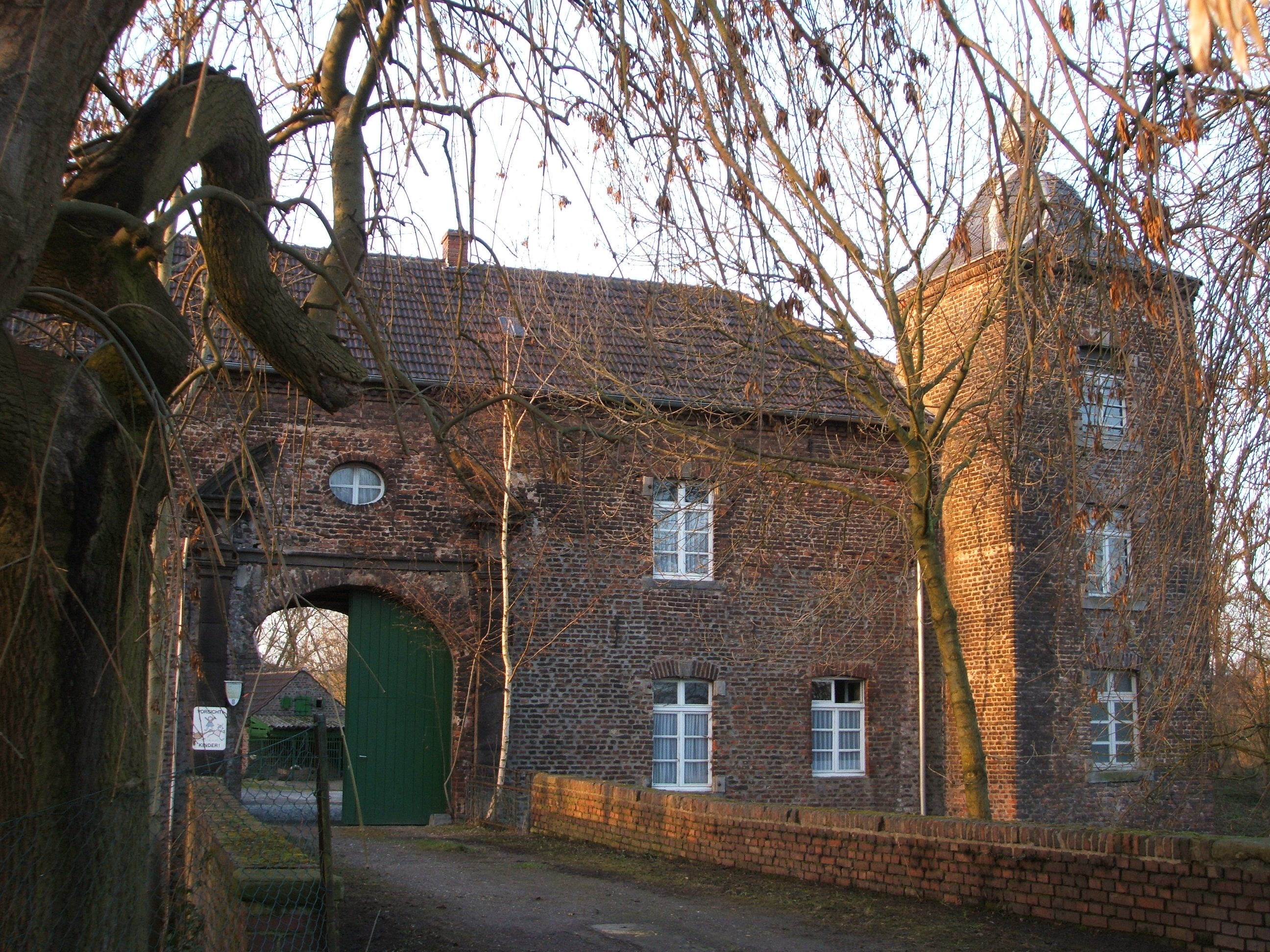 Picure of historical building "Haus Böckum" in Duisburg Huckingen (Front view)